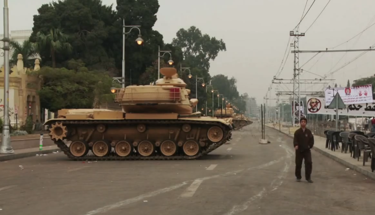 Egyptians go to the polls Saturday in the first day of voting on a controversial new constitution that critics say is too vague on important civil rights issues, and leaves the military in a position of power.